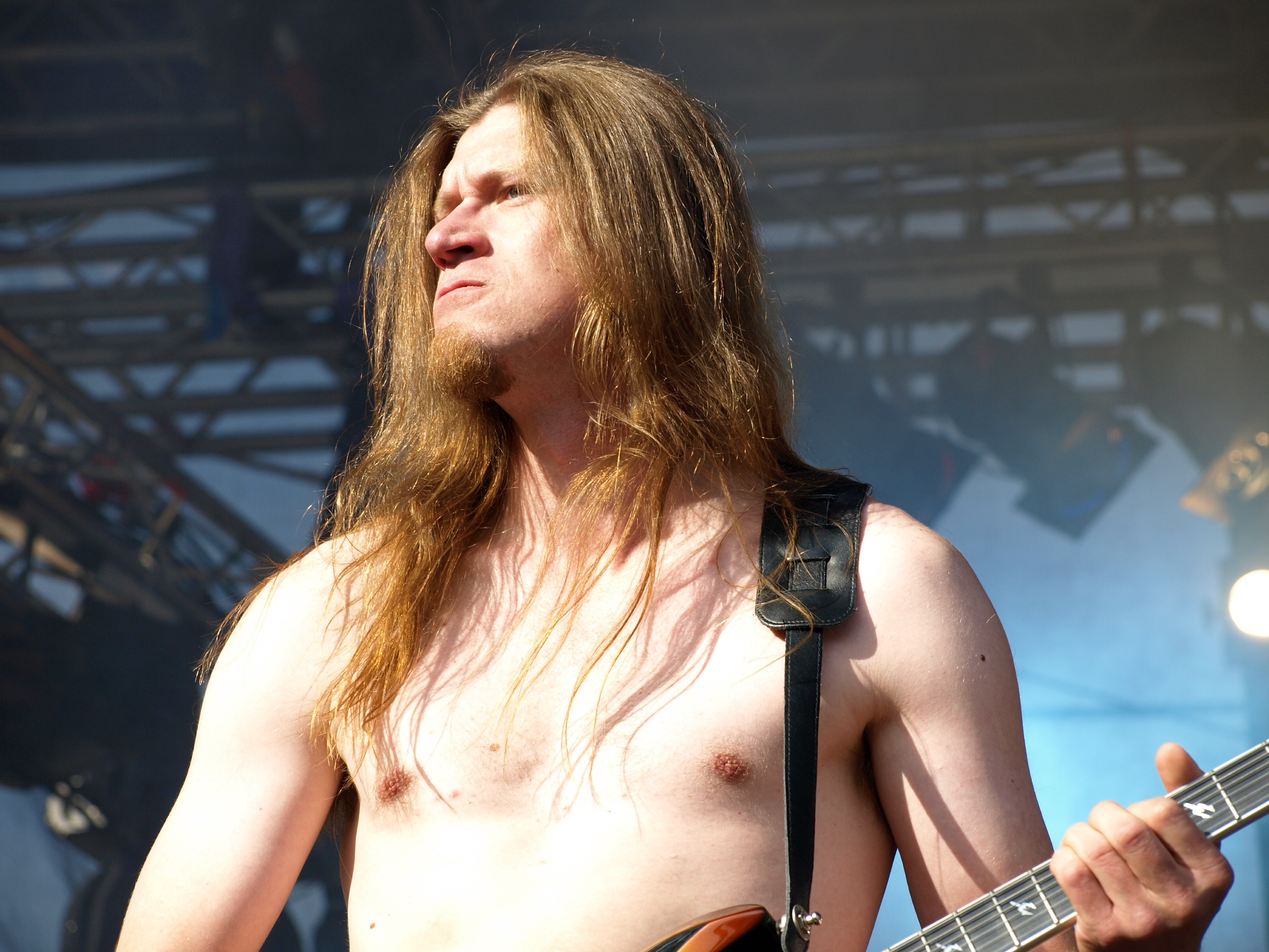 Finnish melodic death metal band Kalmah live at Jalometalli 2008 in Oulu.